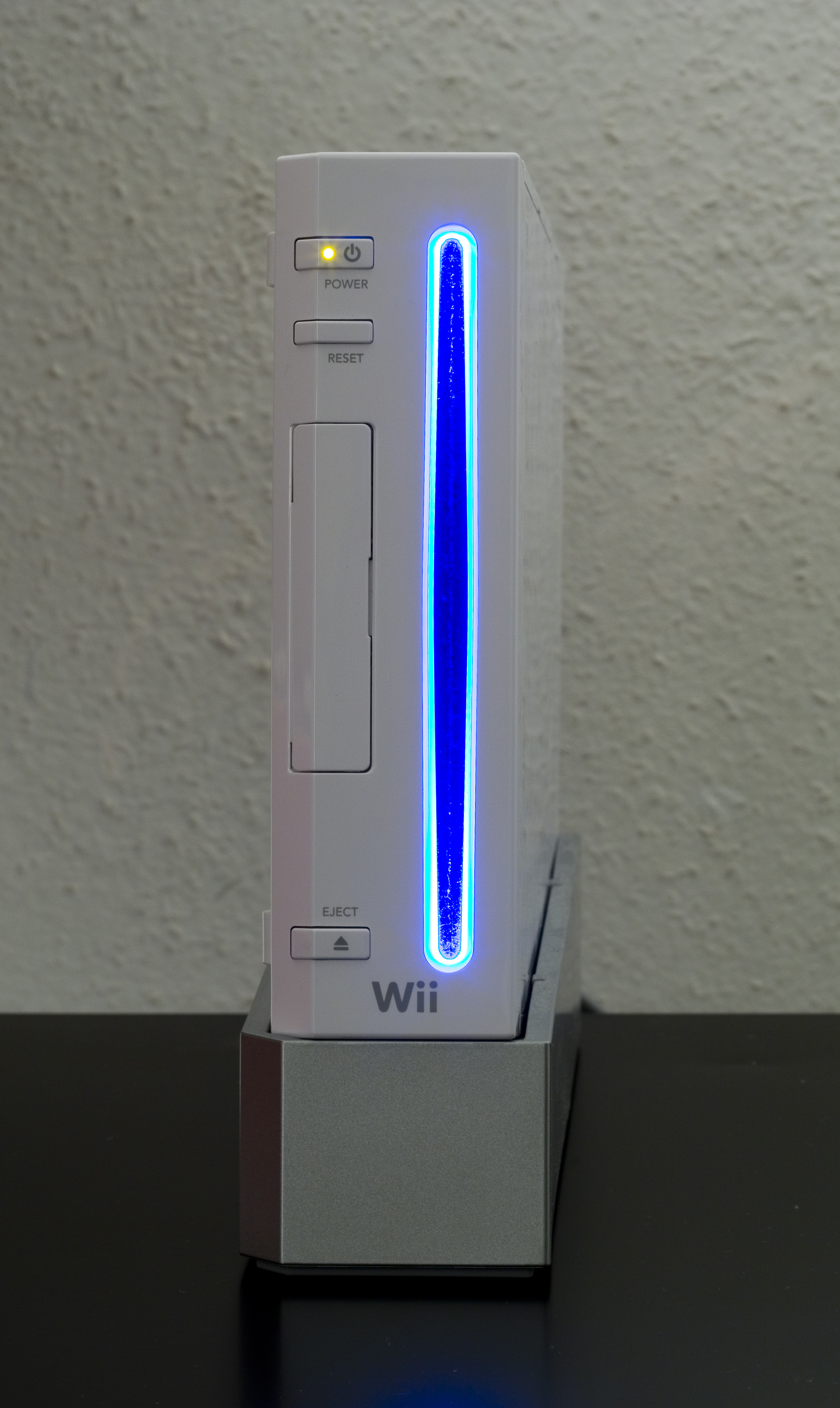 Wii in StandBy mode with active WiiConnect24.